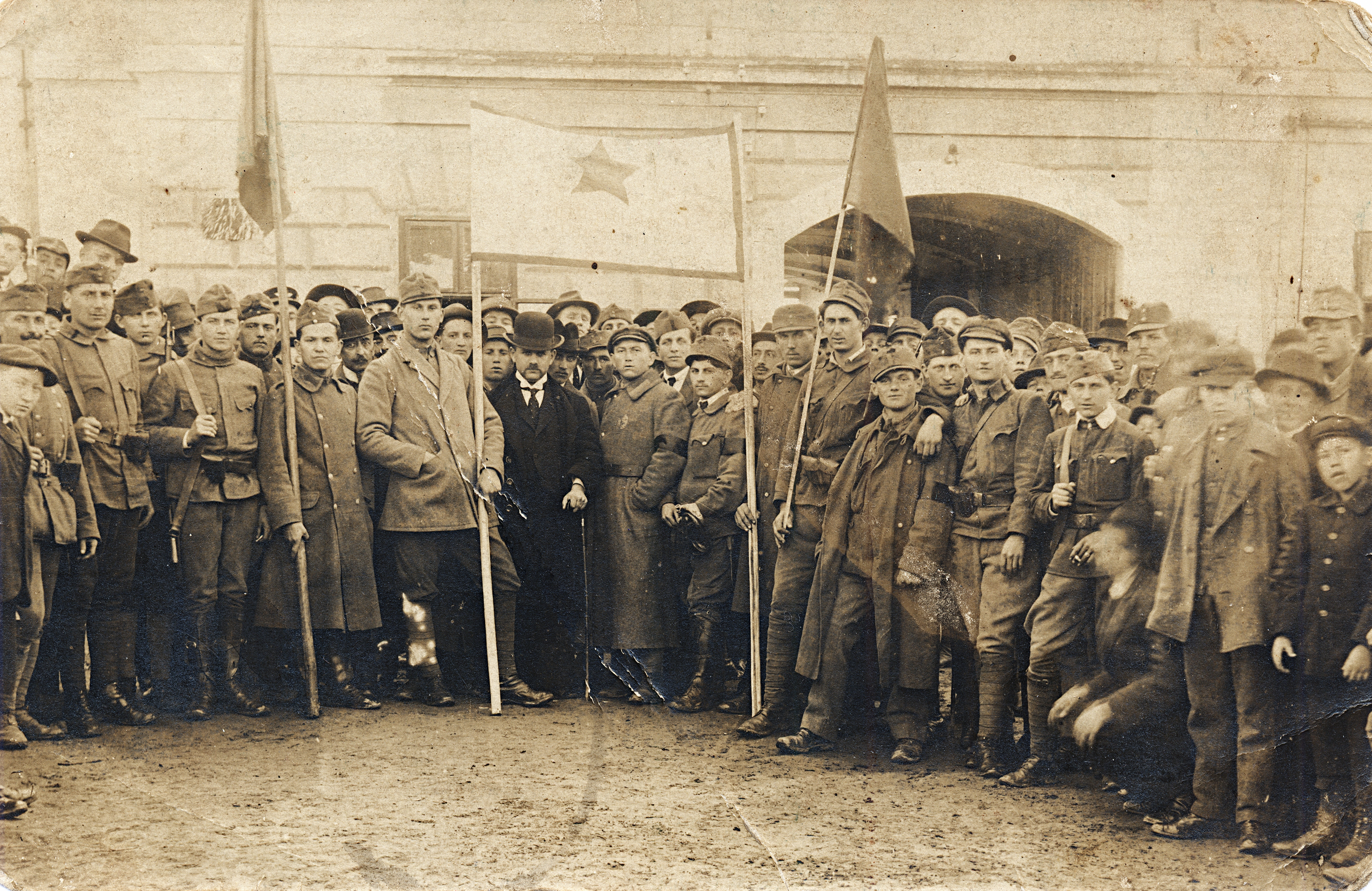 Tags: Hungarian Soviet Republic, Red Star, tableau